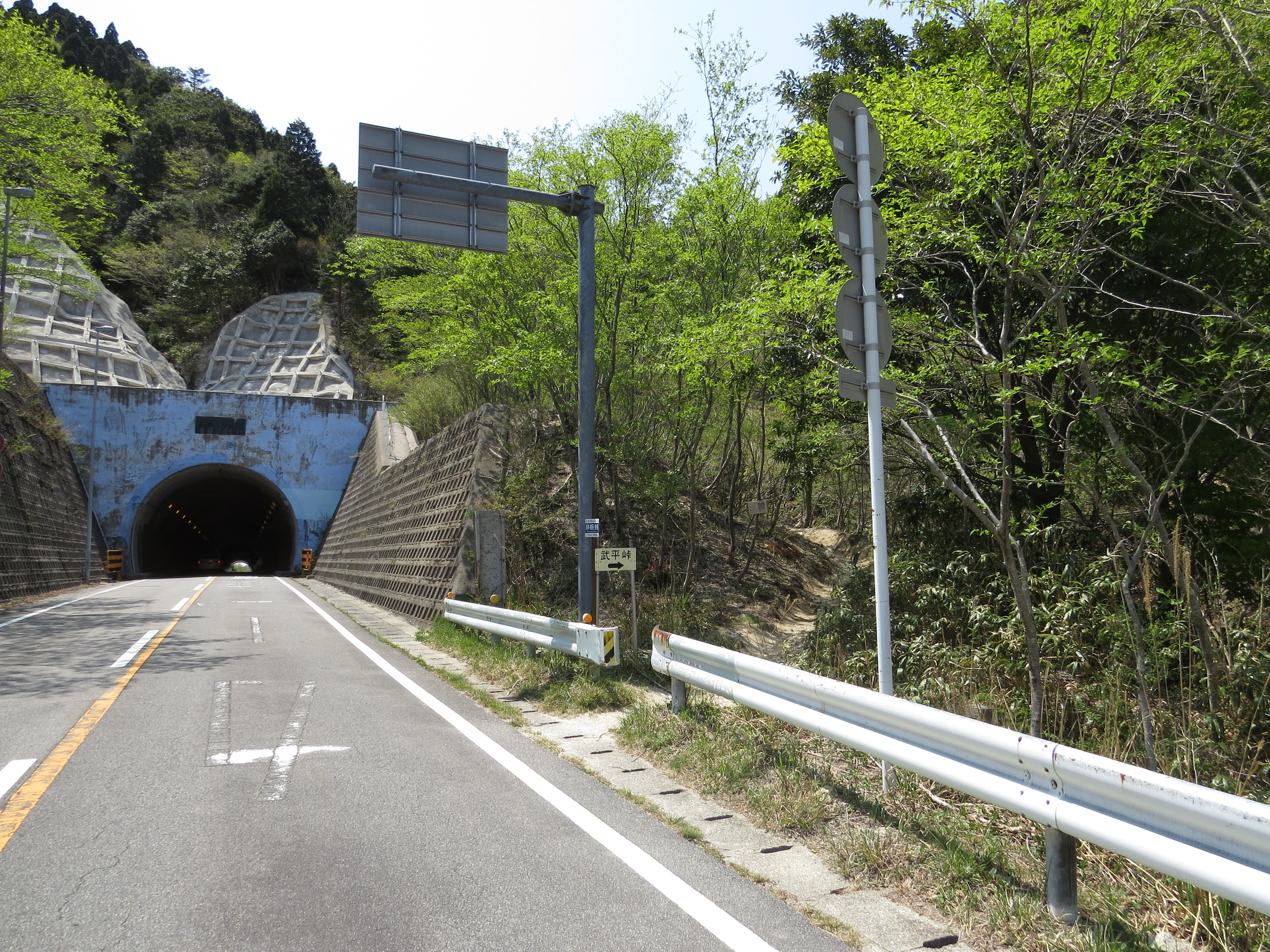 Buhei tunnel of R477, Komono, Mie, Japan.